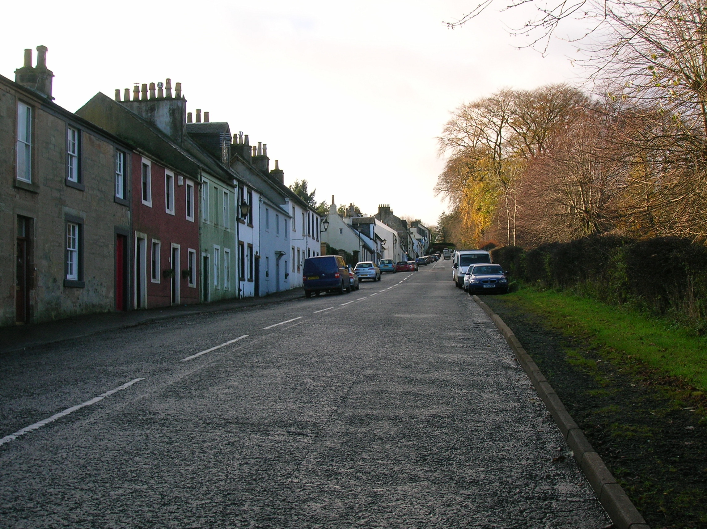 Montgomery Street, Eaglesham, East Renfrewshire, Scotland